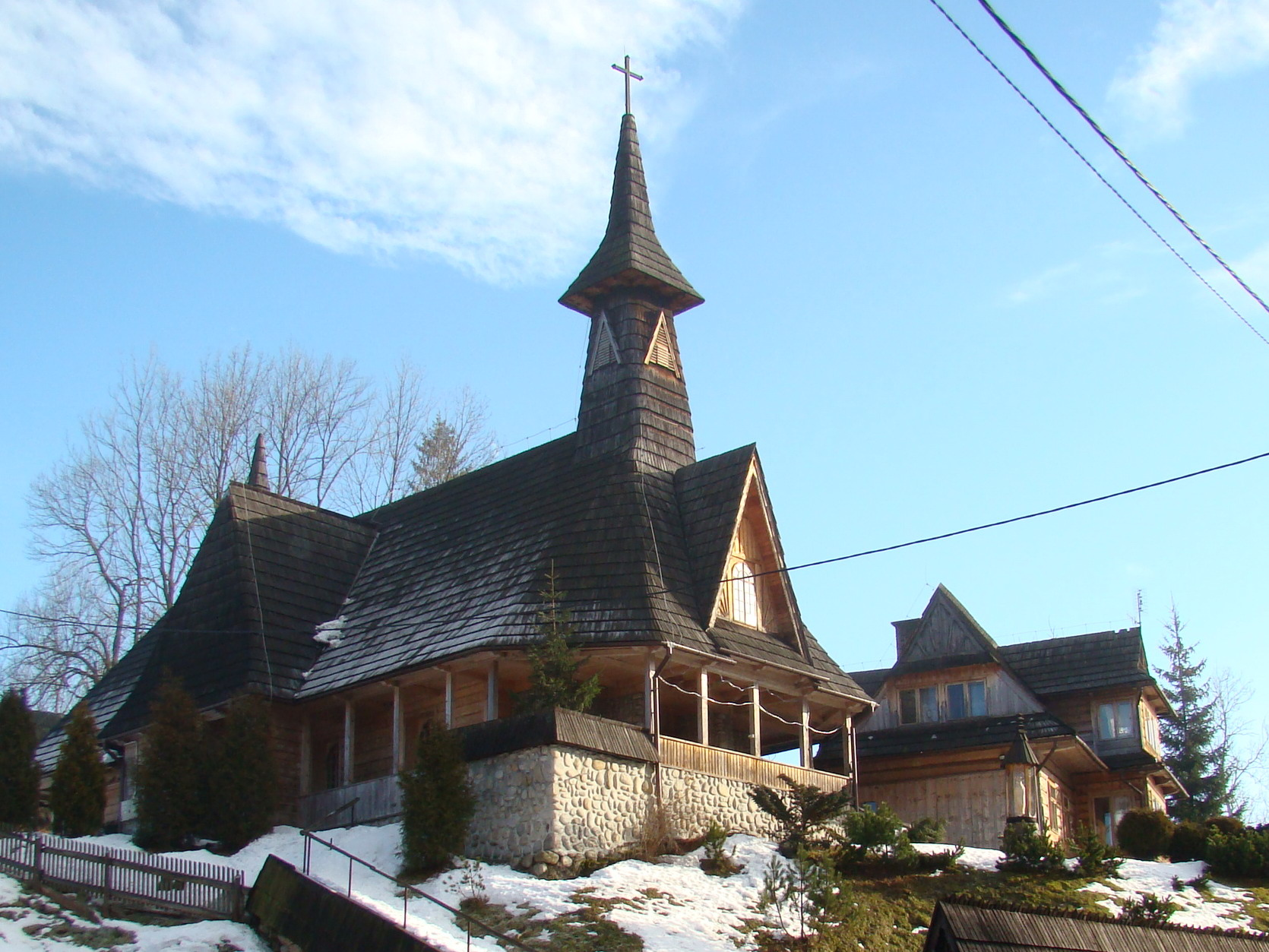 Wooden church in Małe Ciche